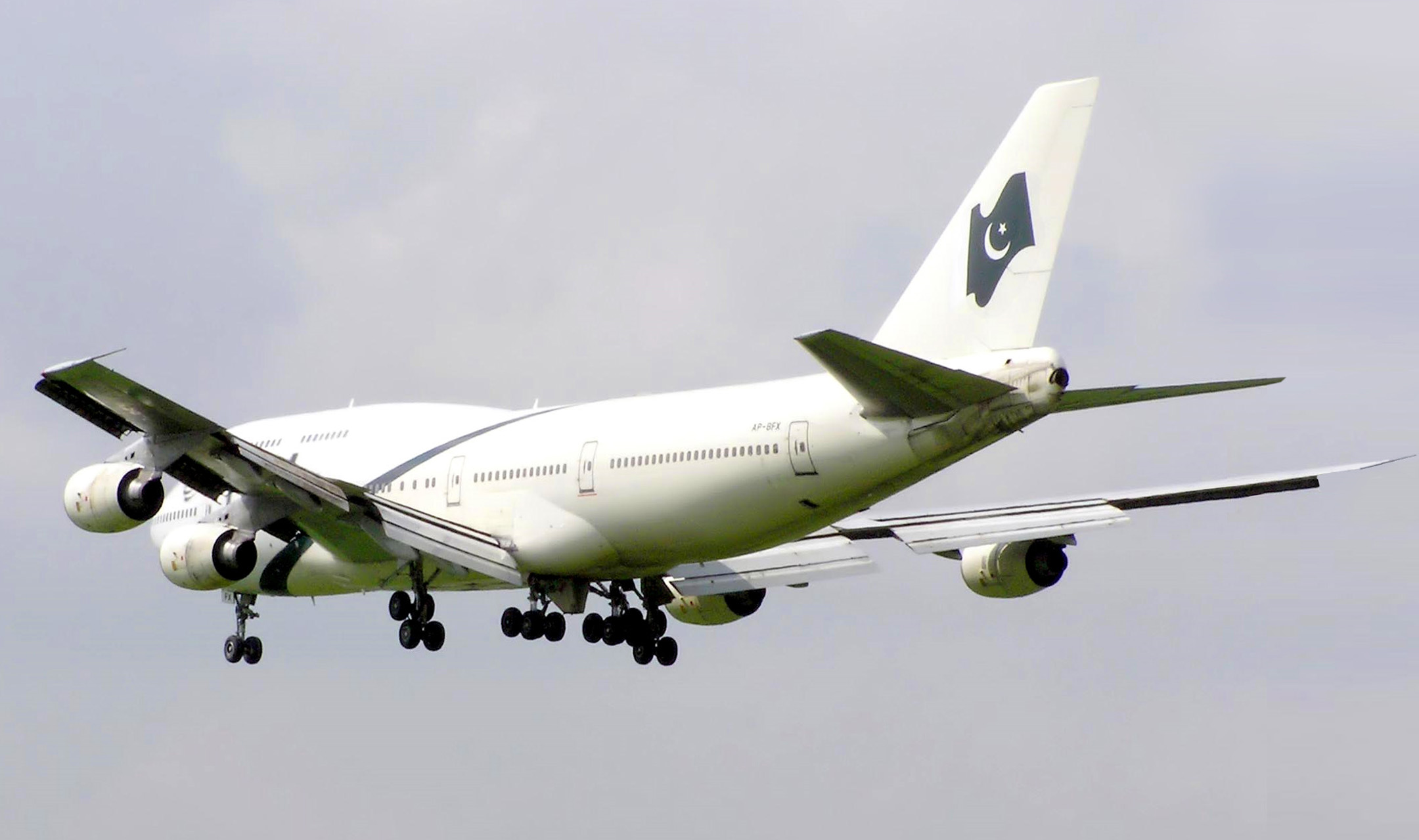 PIA Boeing 747-300 (AP-BFX) landing at London Heathrow Airport, England. Photographed by Adrian Pingstone in May 2006 and released to the public domain.